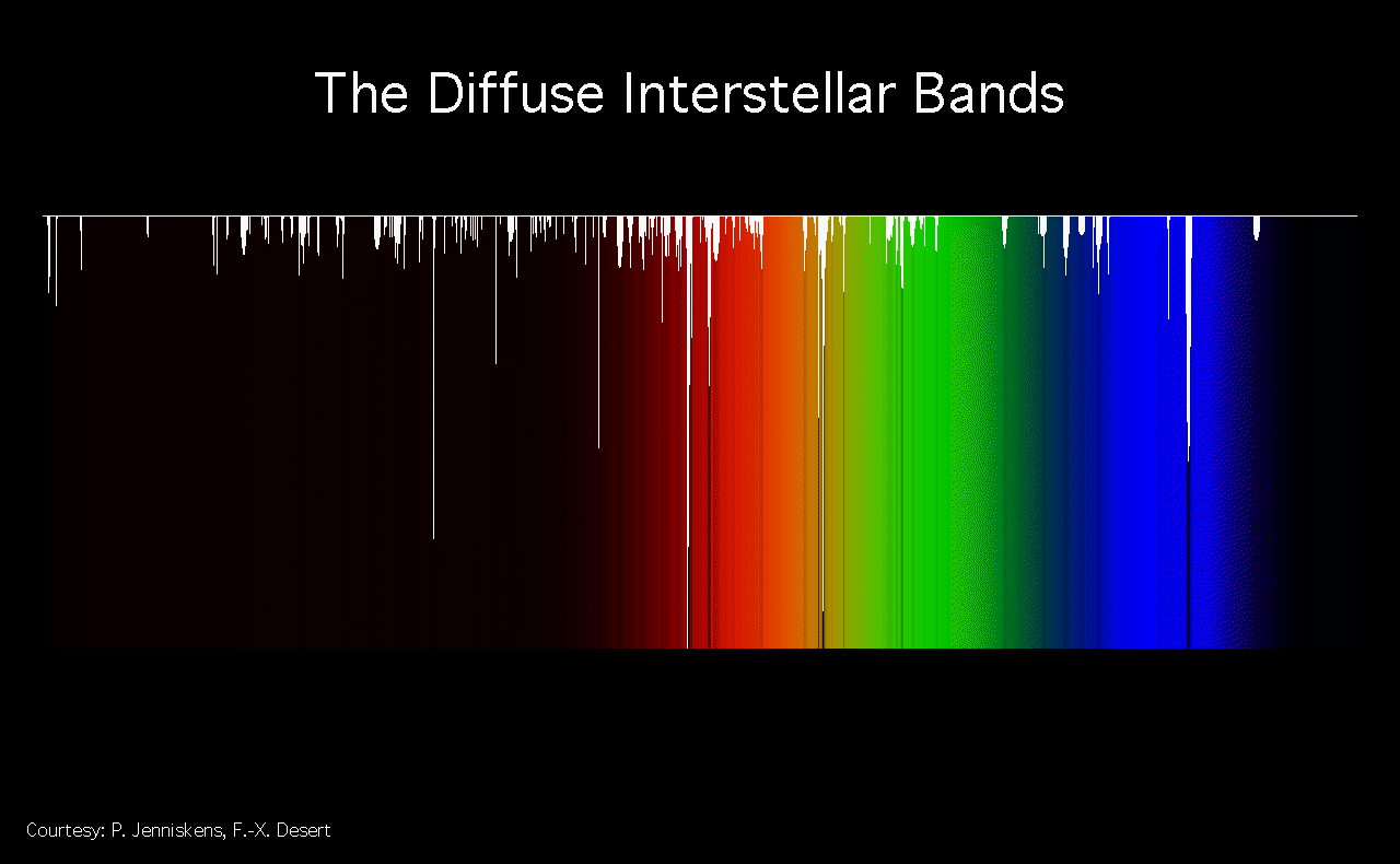 Relative strengths of known diffuse interstellar bands. From [1].